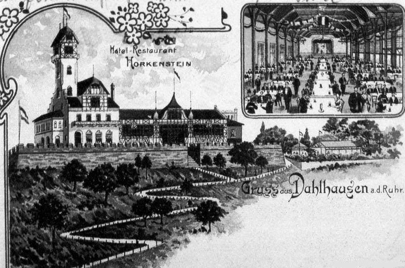 Burg Horkenstein, Hotel-Restaurant in Bochum-Dahlhausen, Germany